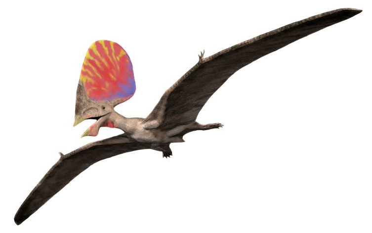 Life reconstruction of Tupandactylus imperator